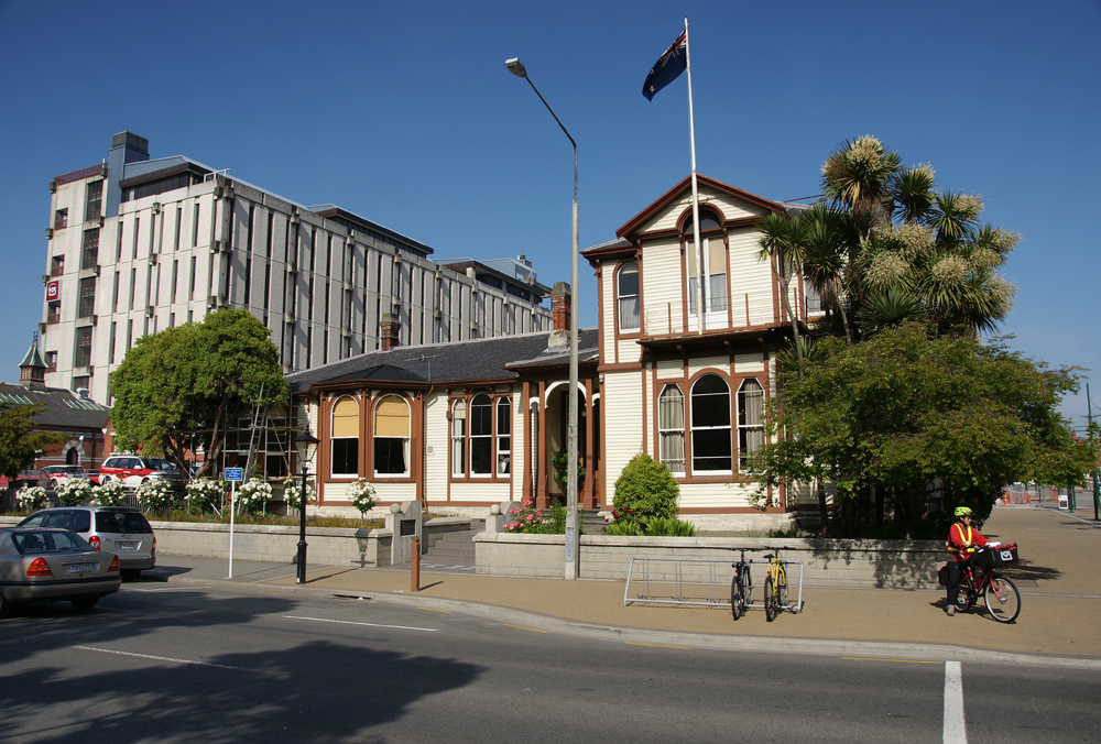 The Canterbury Club in 2007, as seen from Cambridge Terrace.